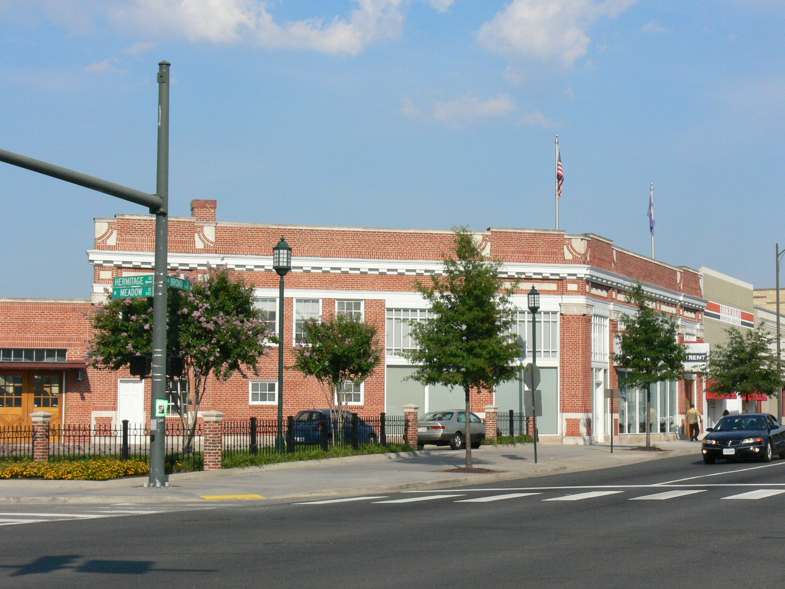 The former Atlantic Motor Company building in Richmond, Virginia, on the National Register of Historic Places